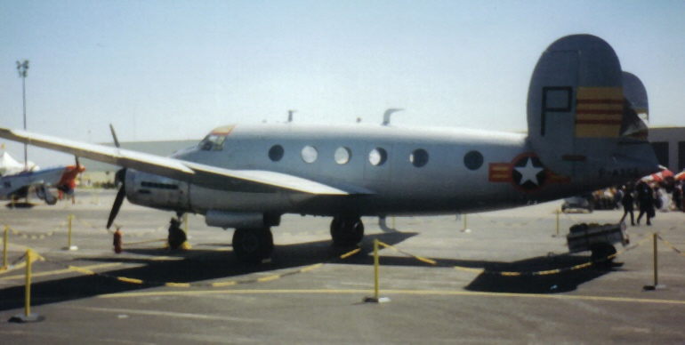 Dassault Flamant in Normandy in 1997.